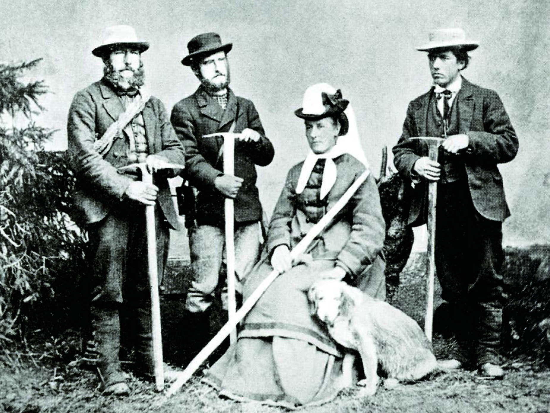 The "Tschingel Company": Christian Almer (1826–1898), his son Ulrich Almer (1849–1940), Margaret Claudia Brevoort (1825–1876), the dog Tschingel and William Auguste Coolidge (1850–1926)